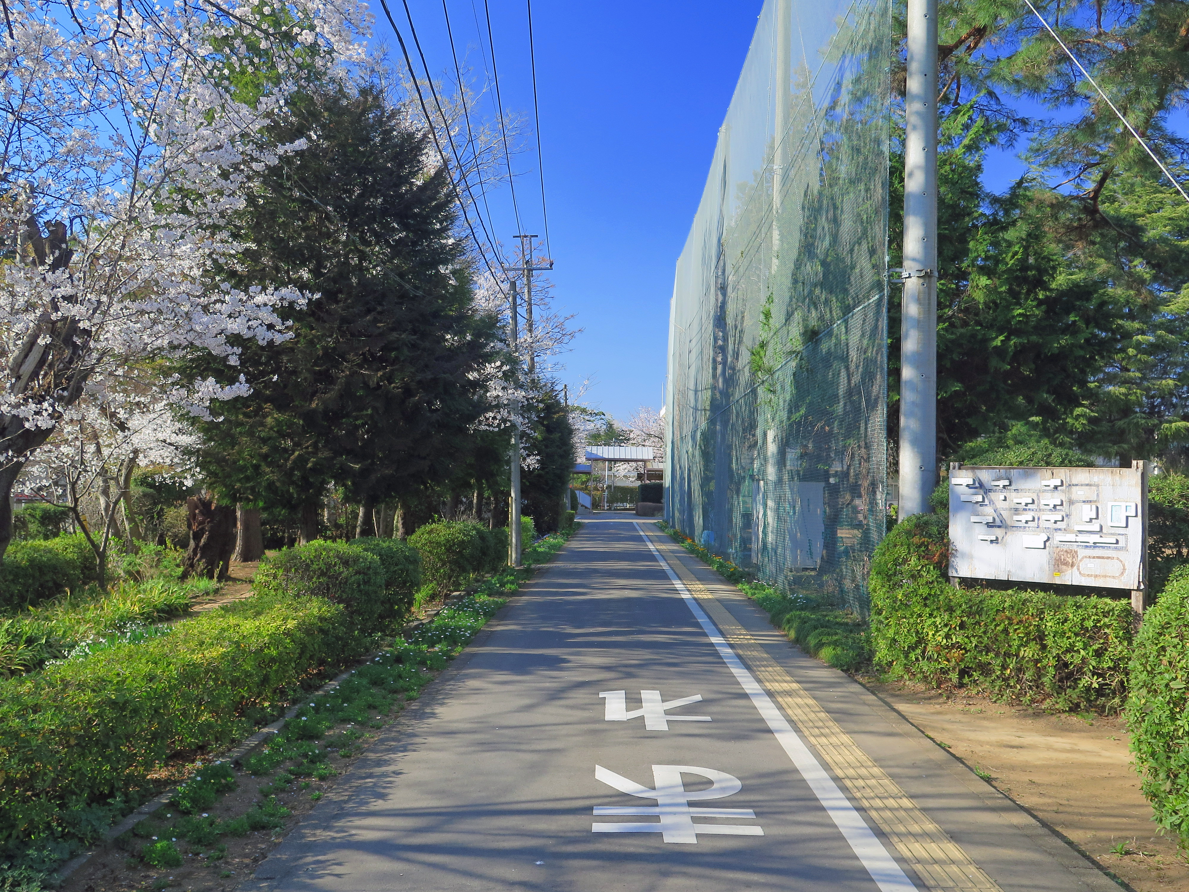 Saitama Prefectural Saitama Academy Entrance Ageo City, Saitama prefecture, Japan